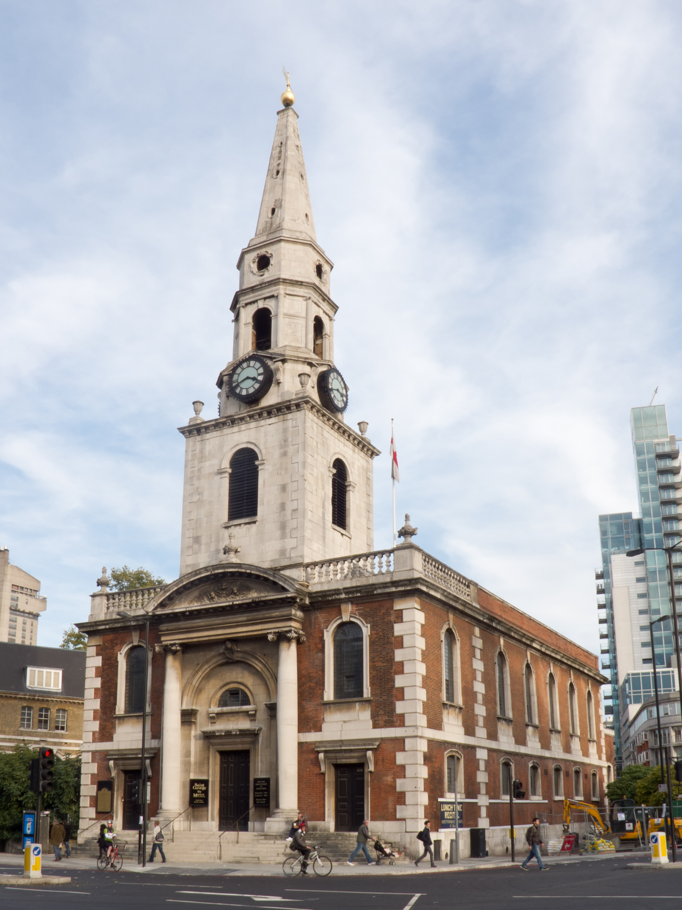 St George the Martyr parish church, Borough High Street, London SE1, seen from the west